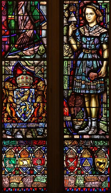 The Dutch Church, Austin Friars, London EC2 - West window detail, depicting Dutch Princess Irene holding a trowel